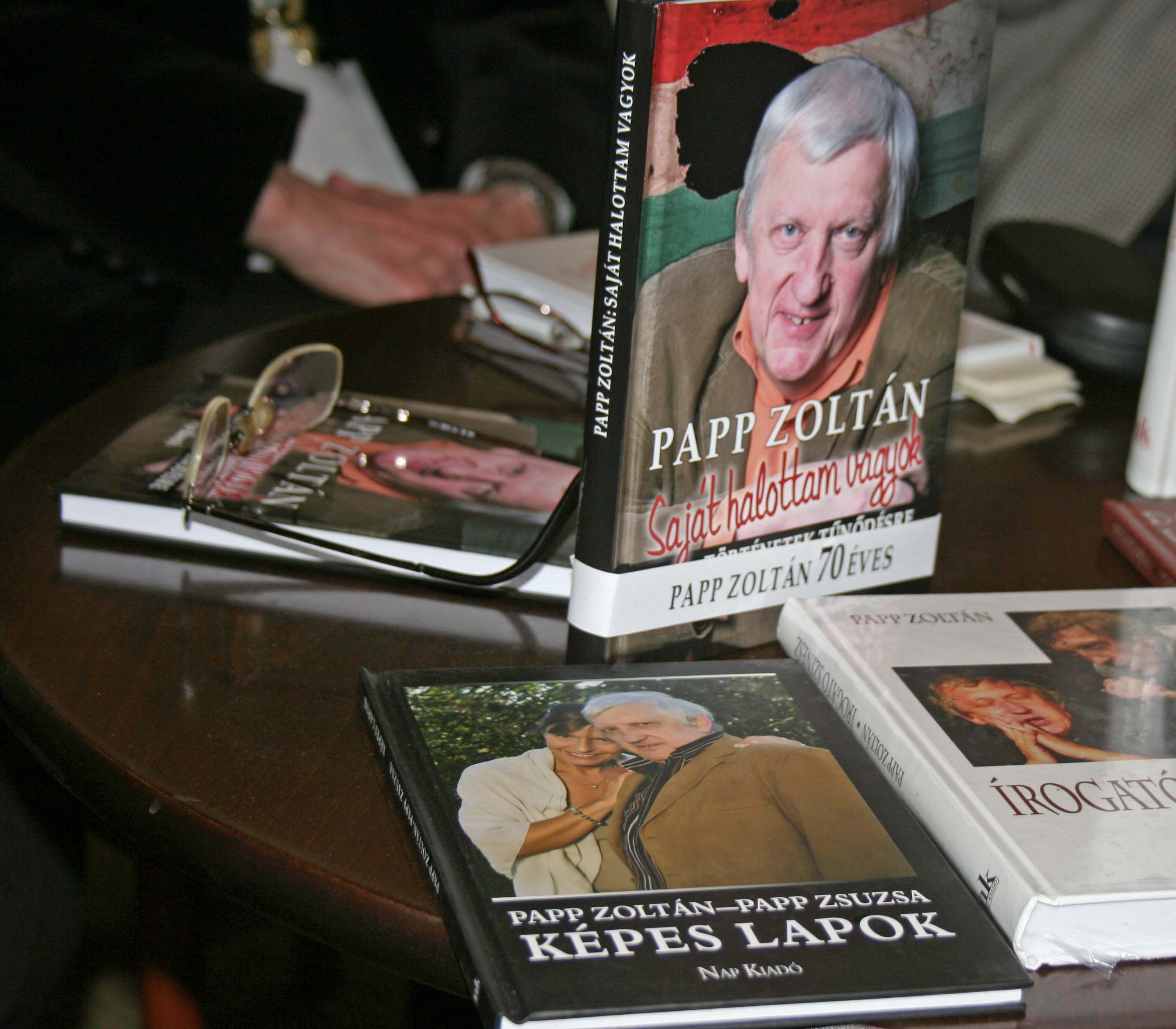 Zoltan Papp Hungarian actor presents his new book 2 February 2014 - published Papp's books